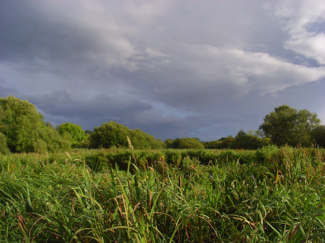 Rack Marsh, Bagnor Watermeadows where the River Lambourn and Winterbourne Stream have their confluence. The marsh is a Wildlife Trust nature reserve. It is crossed by a byway which is, in reality, just a very swampy footpath with footbridges over the watercourses.